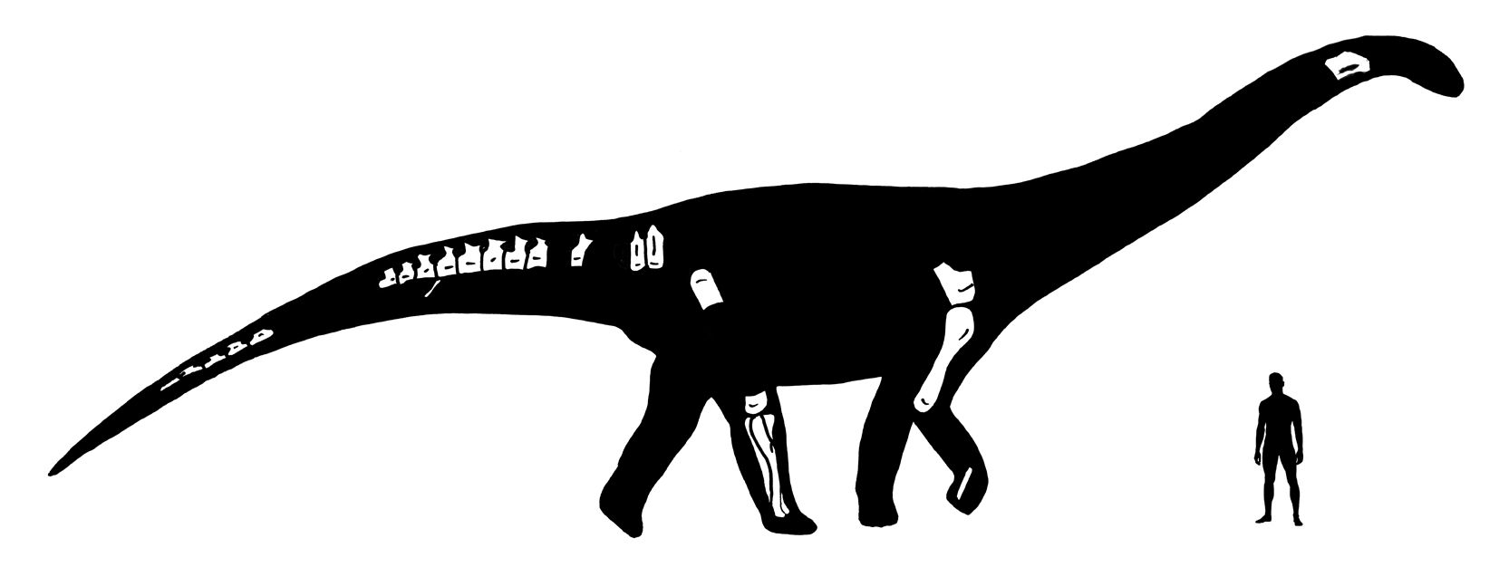 Skeletal reconstruction showing known remains of Nullotitan